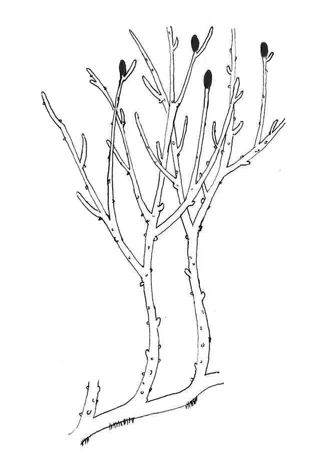 Rhynia gwynne-vaughanii, diagram of reconstruction of this Devonian Landplant